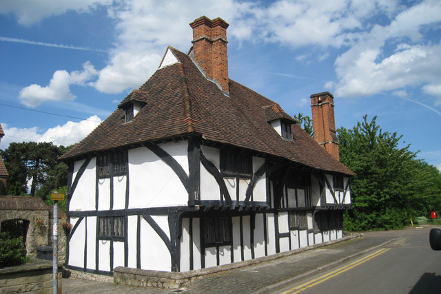 Mulberry Cottages, High Street, Snodland, Kent Grade II listed Keywords: wealden hall house, timber framed, half timbered, mediaeval, tudor, house, original, listed, chimney, snodland